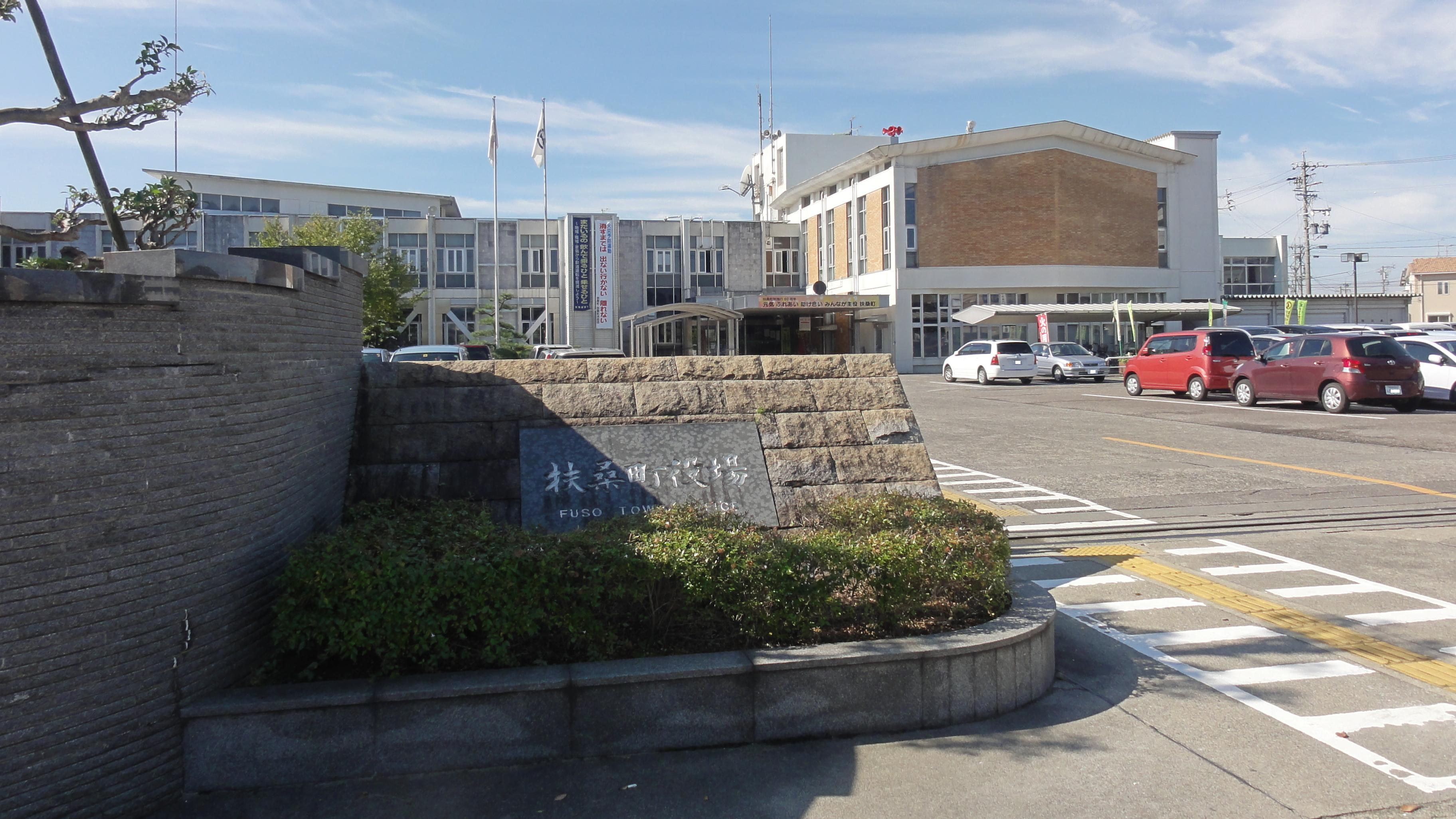 Fuso town office,Aichi prefecture,Japan